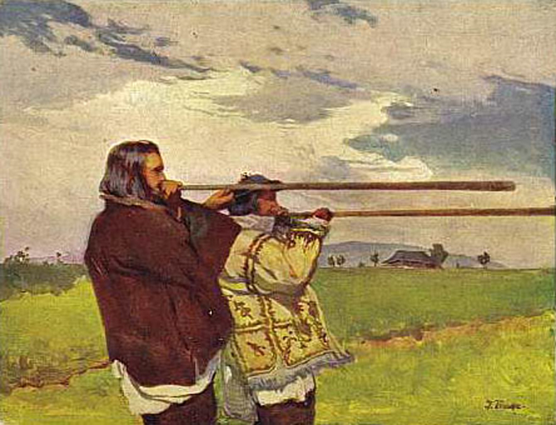 Ivan Trush